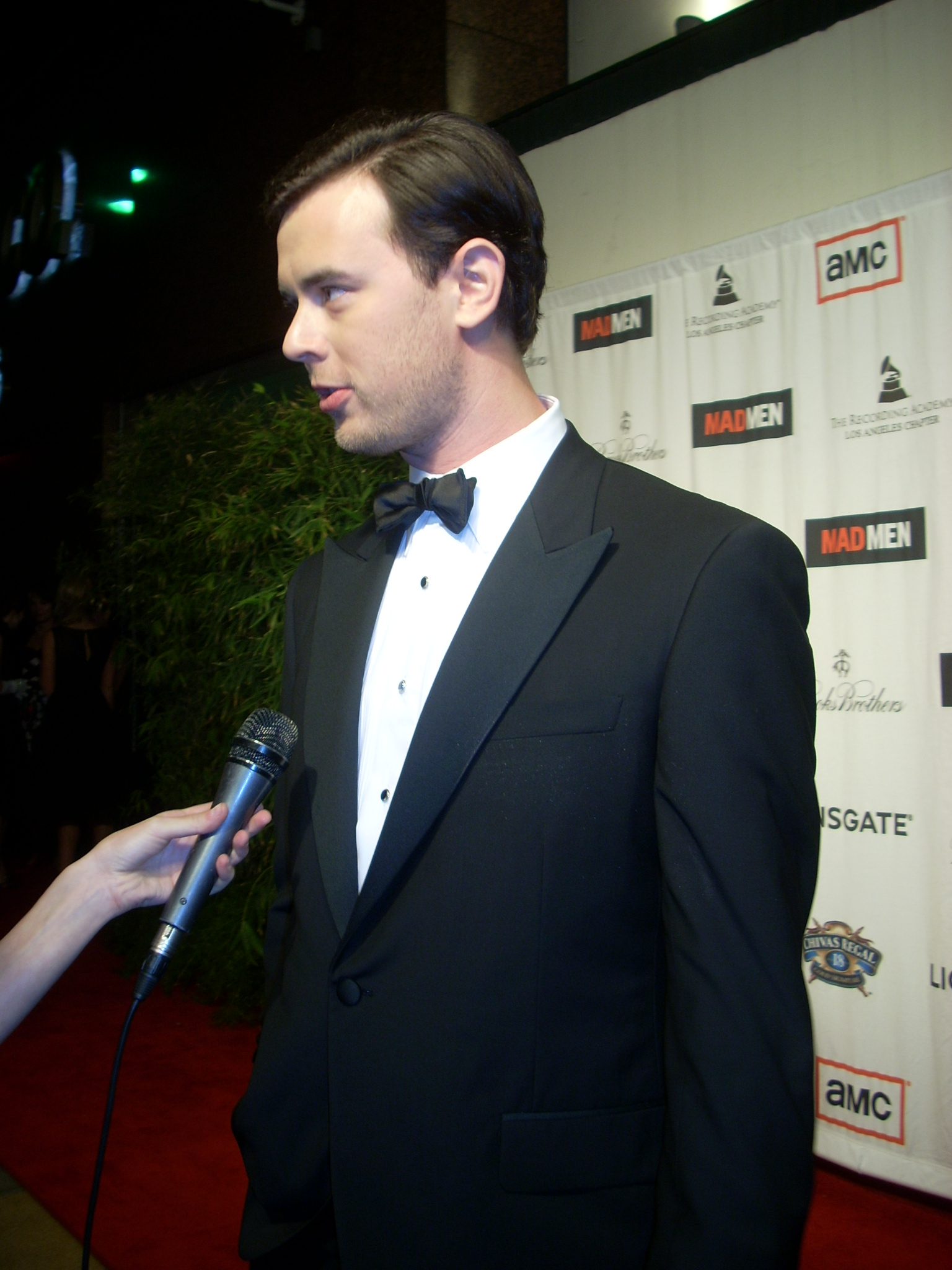 Actor Colin Hanks at Chivas Regal Presents a Night on the Town with "Mad Men" - El Rey Theater, Los Angeles - Oct. 21, 2008